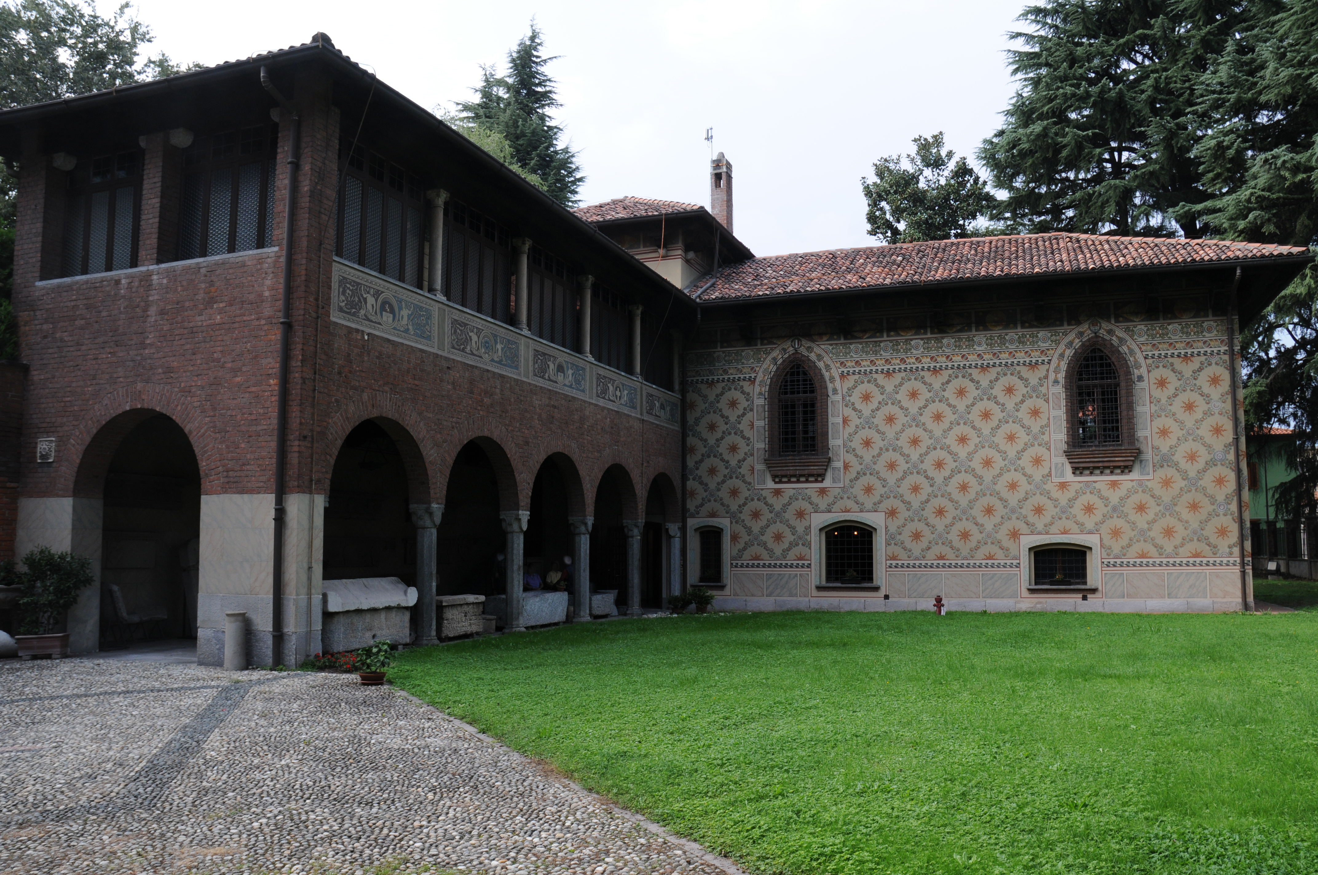 Municipal Museum Guido Sutermeister in Legnano (Italy)